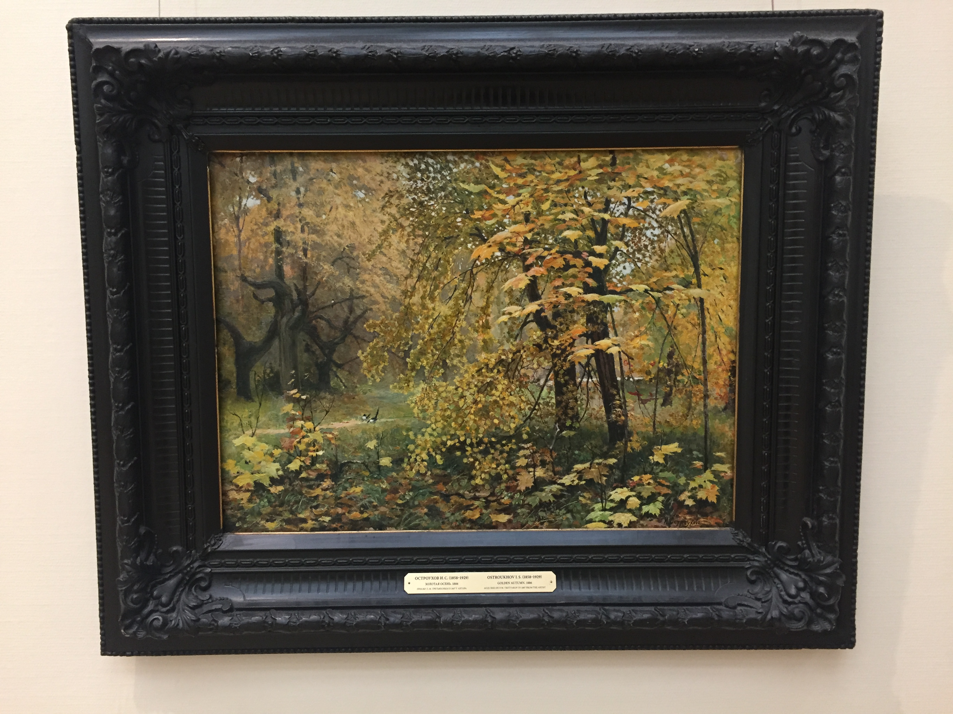 "Golden Autumn" (painting by Ilya Ostroukhov, 1886) in the State Tretyakov Gallery